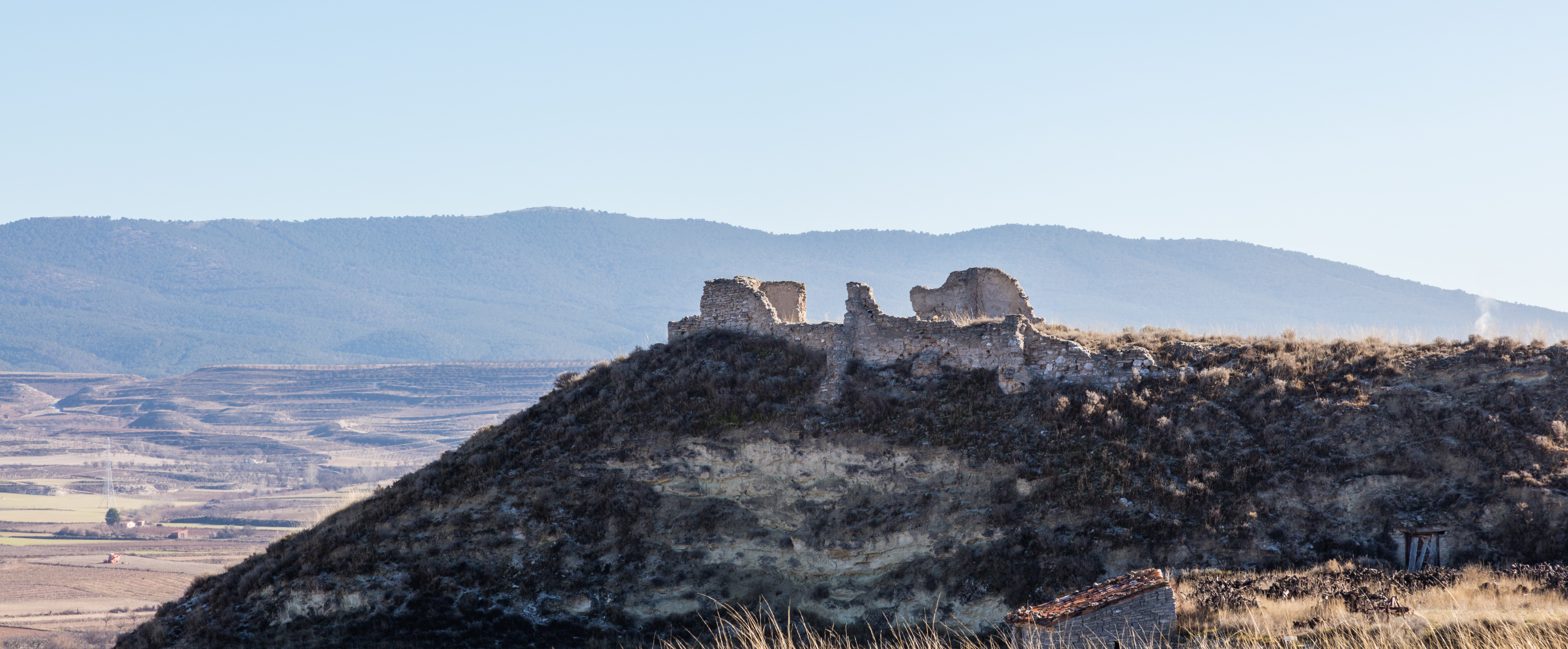 Castle of Belmonte de Gracián, Saragossa, Spain